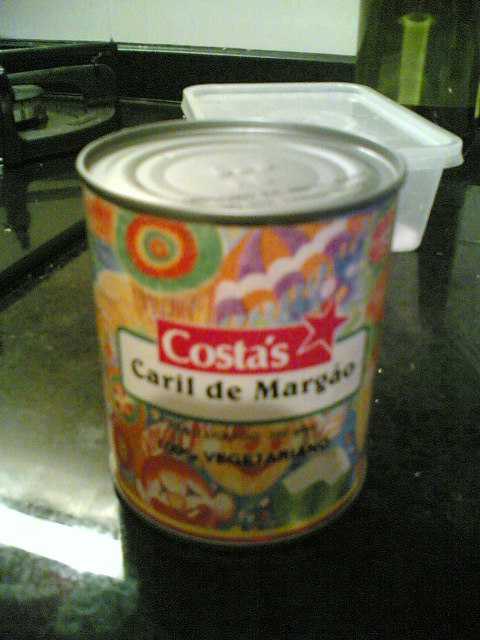 Can of curry from Margão.